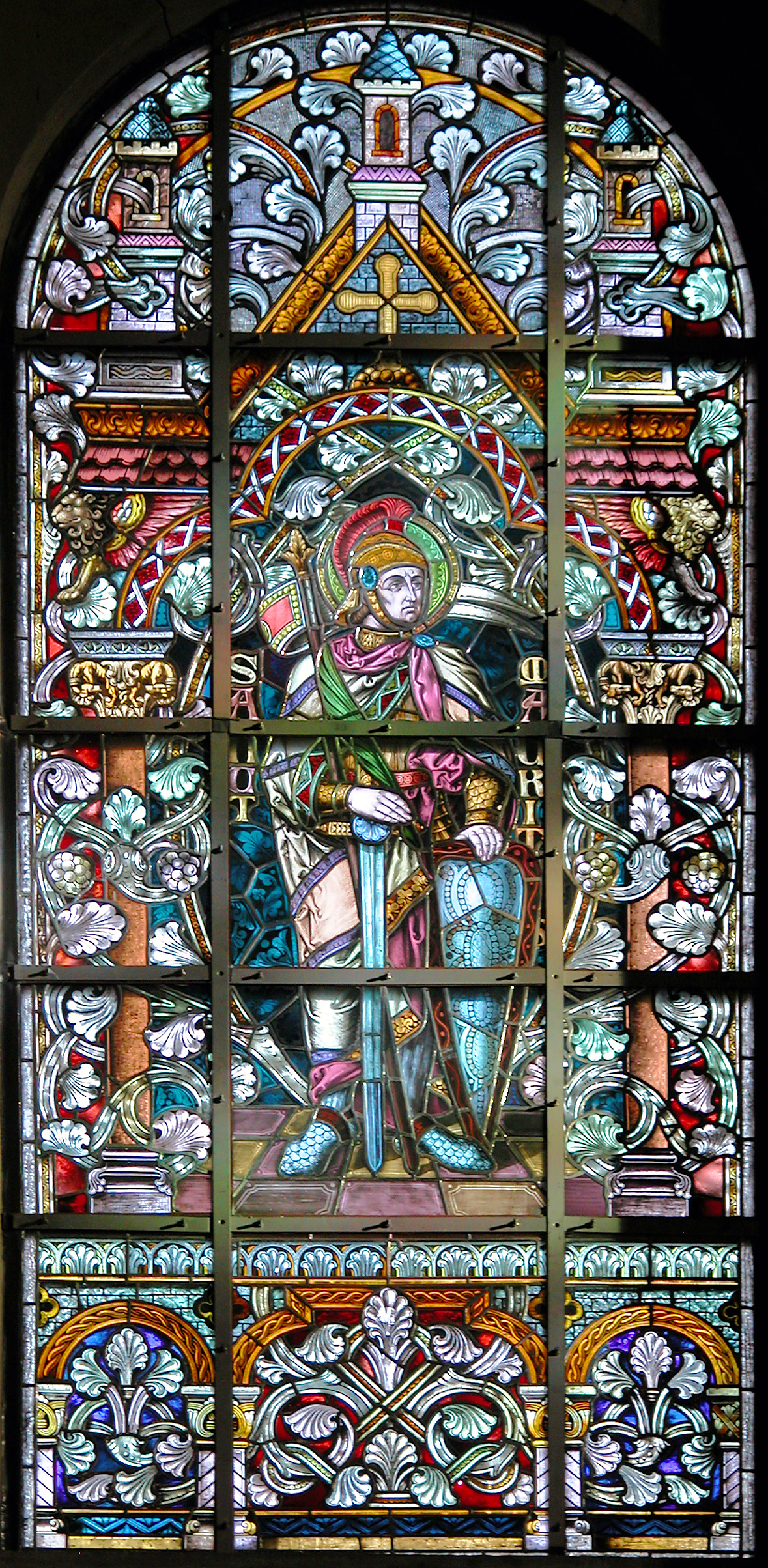 22.01.2007 01099 Dresden, Stauffenbergallee 9: Katholische St. Martin Kirche (Garnisonkirche, 1895 - 1900). Buntglasfenster St. Mauritius (links der Orgel). Die Buntglasfenster wurden nach Skizzen der Architekten Josef Goller (1868-1947) und Bruno Urban (1851-1910) geschaffen und von der Fa. Puhl und Wagner in Berlin ausgeführt[DSCN20686.TIF]20070122060DR.JPG(c)Blobelt